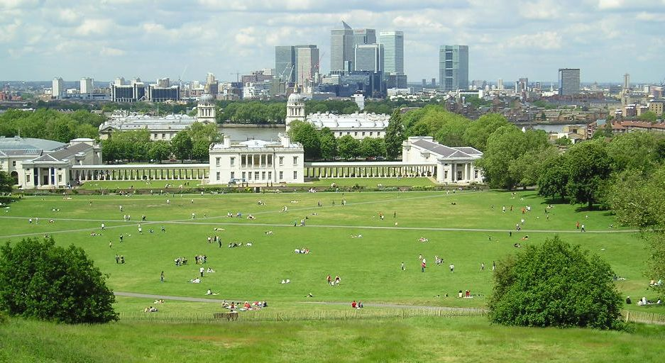 The Royal Park of Greenwich et the National Maritime Museum, from the Observatory. Backdrop: the Canary Wharf business district